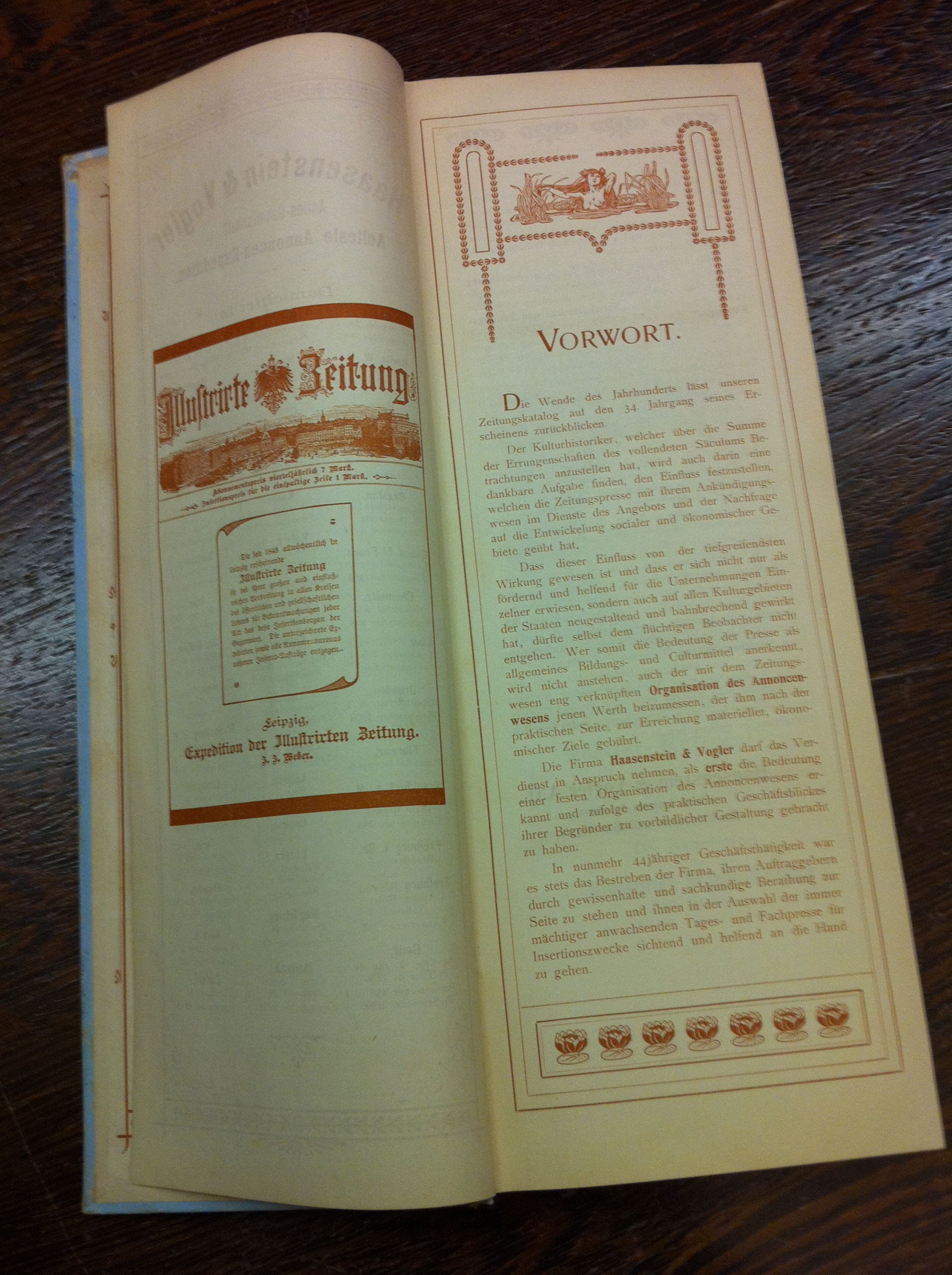 Foreword of Notizkalender und Zeitungskatalog der Annoncen-Expedition Haasenstein und Vogler 1900